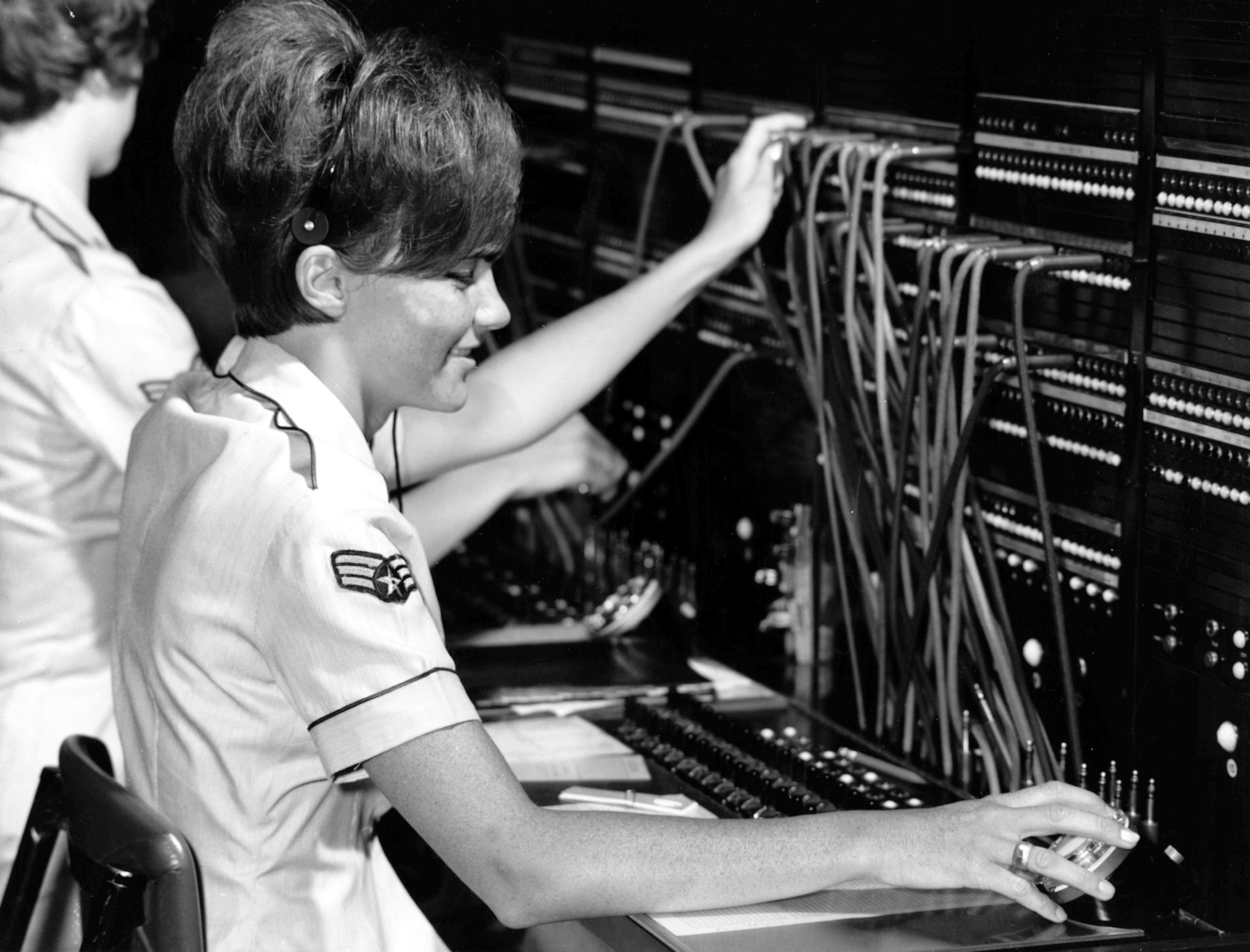 U.S. Air Force Sgt. Suzann K. Harry, of Wildwood, N.J., operates a switchboard in the underground command post at Strategic Air Command headquarters, Offutt Air Force Base, Neb., in 1967.